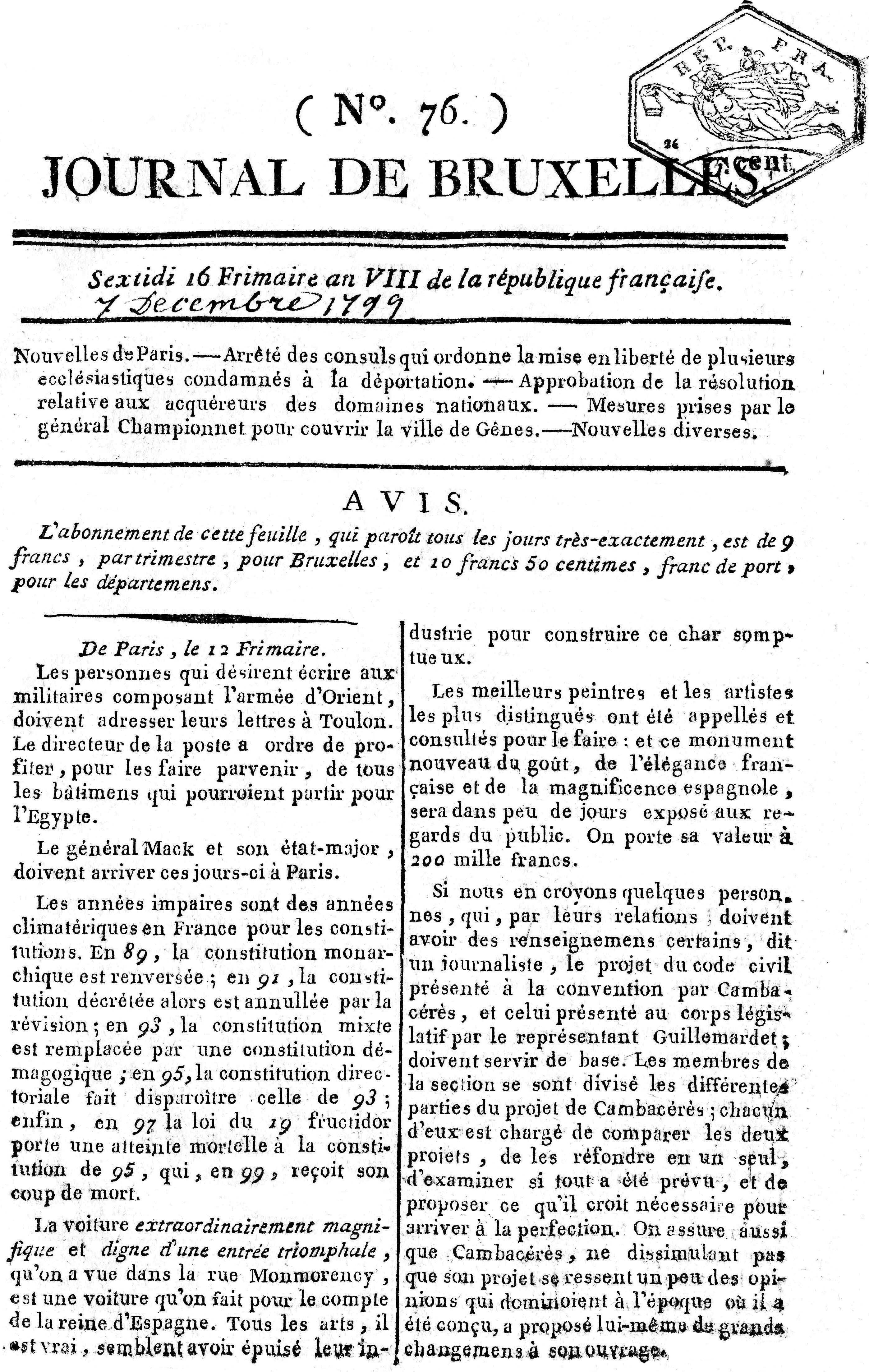 Nr 76 of the "Journal de Bruxelles" during the French revolutionary republic occupation of Brussels in 1799. The French republican date is: Sextidi 16 Frimaire VIII (Saturday 7 December 1799). This journal contains many dispatches with news all over Europe. Page 601.